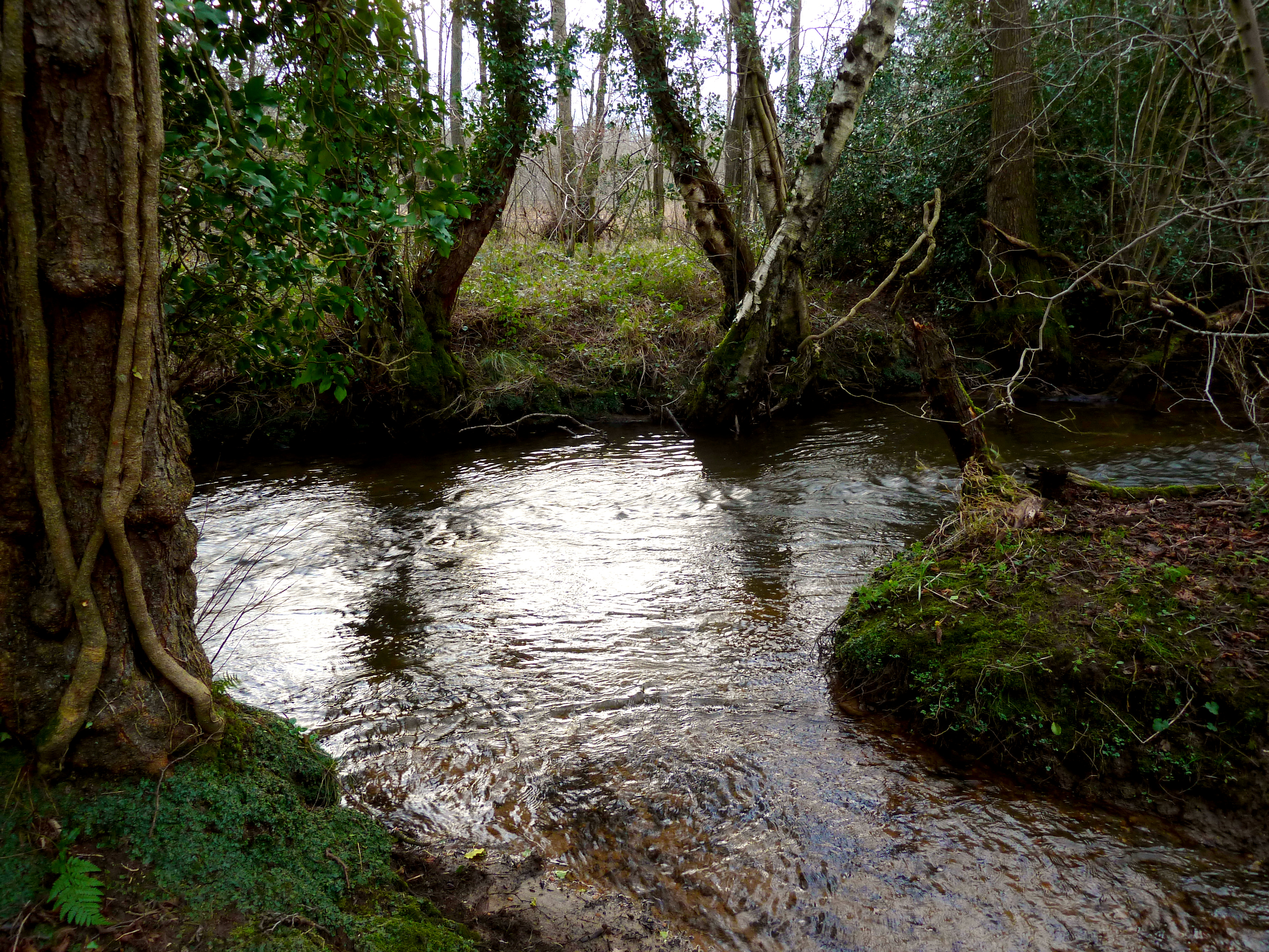 Cow Myers, Site of Special Scientific Interest (SSSI), between Ripon and Kirkby Malzeard, North Yorkshire, England. This site consists of fen (wetland with reeds) encircled by carr (wetland with trees). There is no public access or vehicle access to this site. Showing a tributary (running from bottom RH corner of picture) joining Kex Beck (running right-left). In the background behind the trees is the central fen, unreachable behind barbed wire.